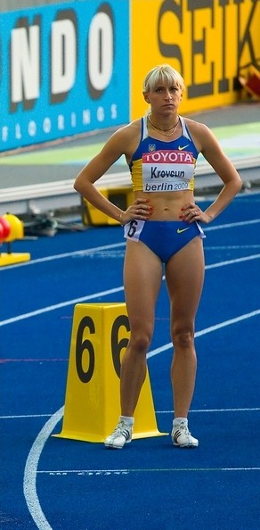 Yuliya Krevsun at the start of the 800 metres Semifinal at the 2009 World Championships in Athletics.